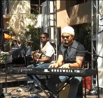 Guy Sebastian performing at BMI showcase at the SXSW music Festival in Texas in March 09.